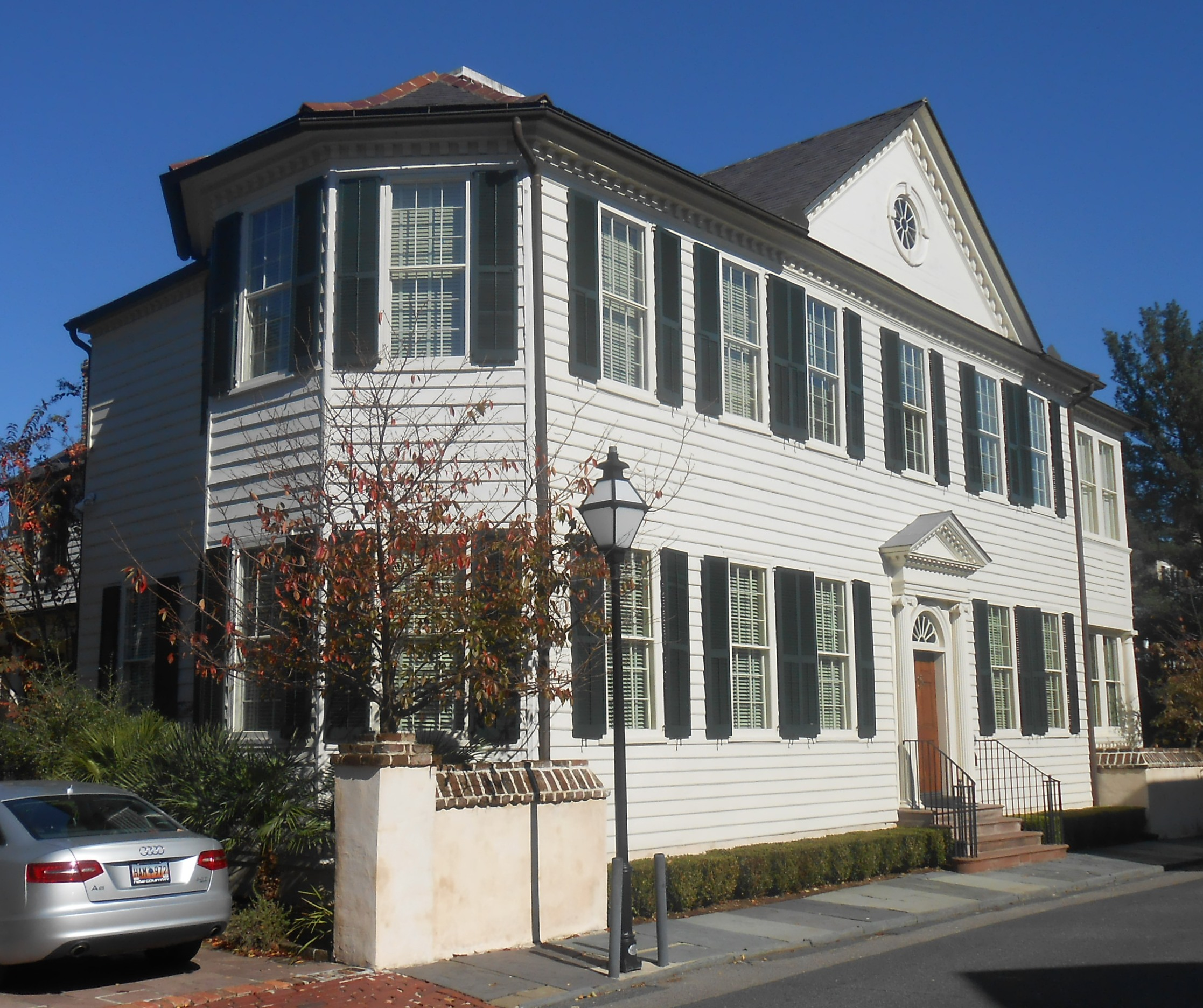 2 Ladson Street, Charleston, South Carolina